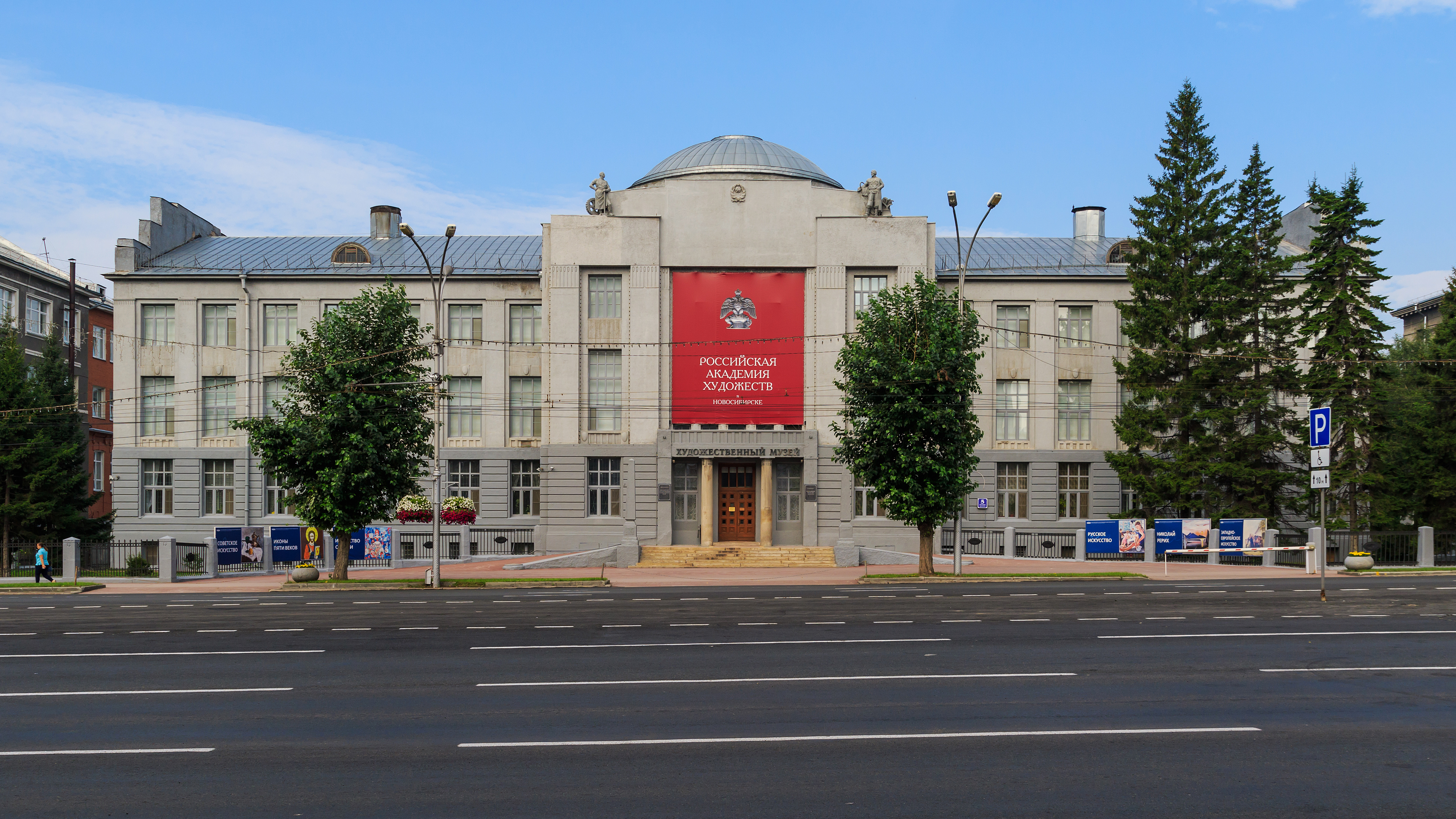 Building of the Museum of Arts in Novosibirsk, Russia